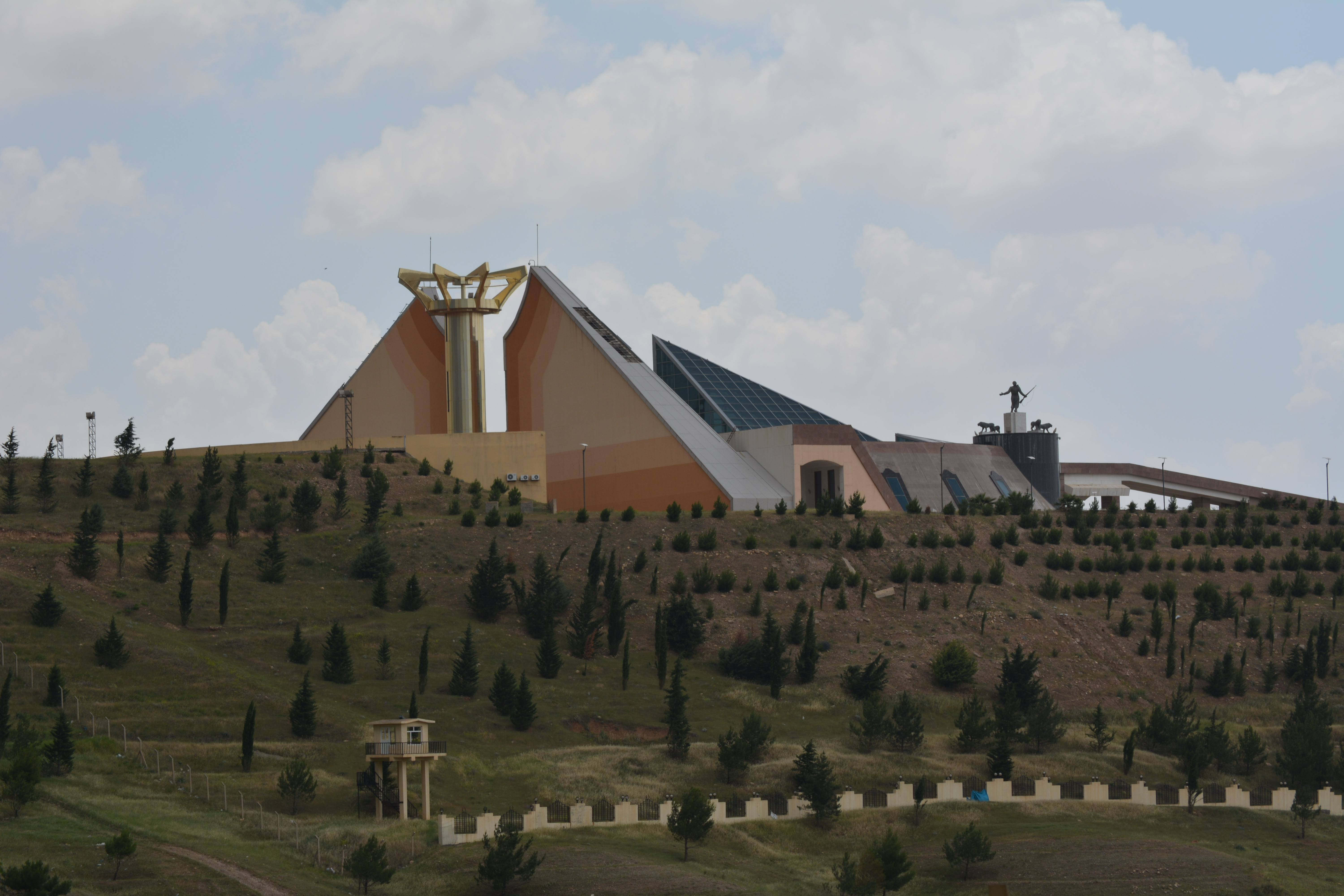 Landscape view for Erbil Martyrs Monument located at the Entrance of Erbil-Koya Road.